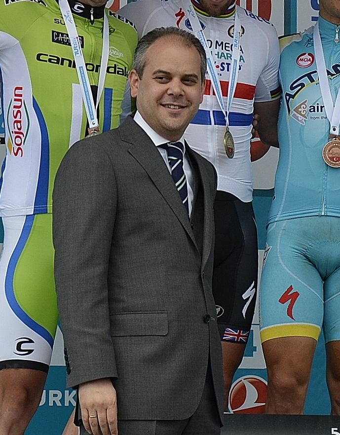 Akif Çağatay Kılıç